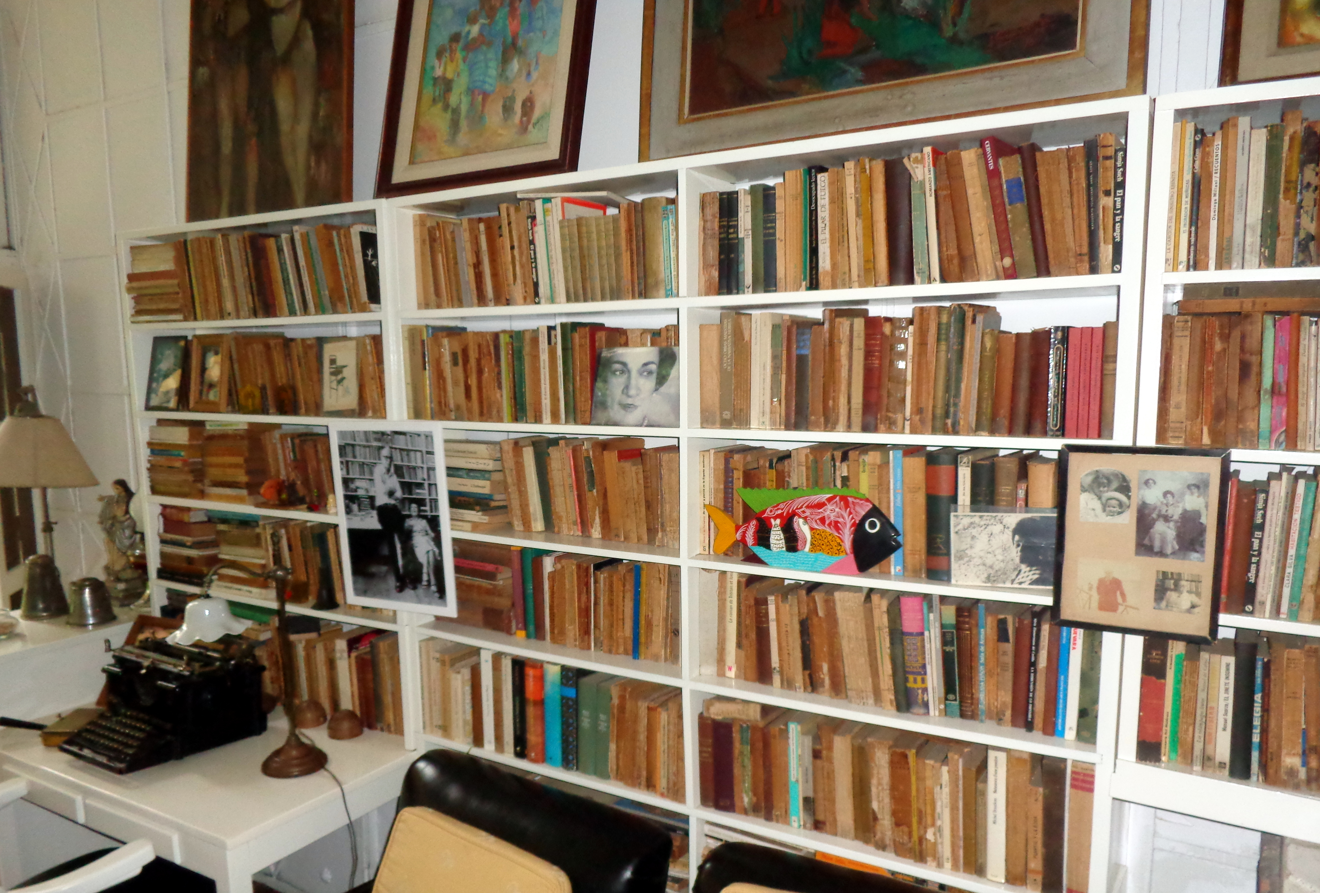 House where the writer Ernesto Sabato lived, current museum. In Saverio Langeri 3135, Santos Lugares, Buenos Aires Province, Argentina.